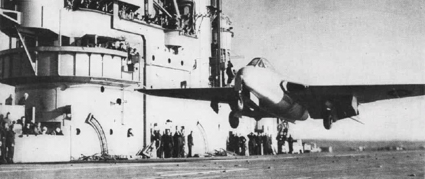 A De Havilland Sea Vampire Mk.10 taking off from the Royal Navy aircraft carrier 'HMS Ocean' on 3 December 1945. The plane was flown by Cpt. Eric "Winkle" Brown and was the first landing and take off of a jet airplane from an aircraft carrier. The plane had been converted for carrier trials.